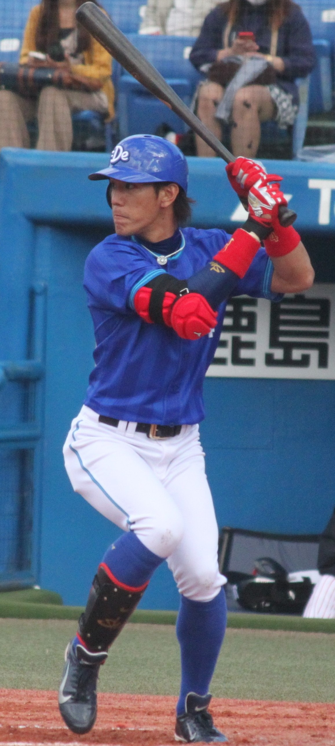 Sho Aranami, outfielder of the Yokohama DeNA BayStars, at Meiji Jingu Stadium.